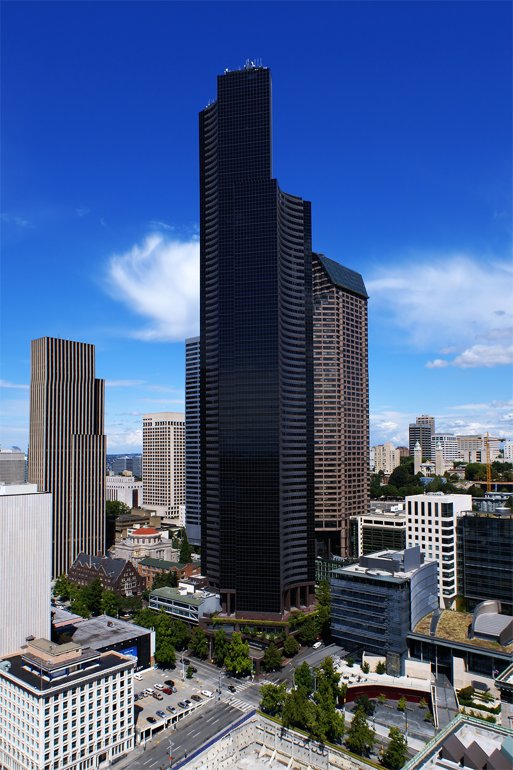 Columbia Center, seen from observation deck of Smith Tower.